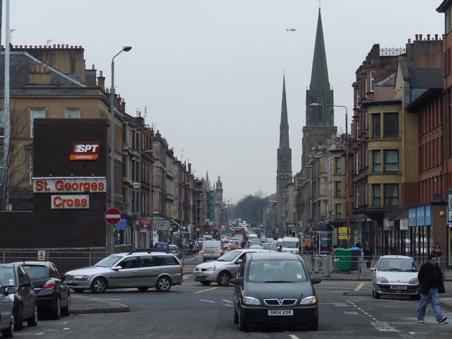 Great Western Road Viewed from St George's Cross.